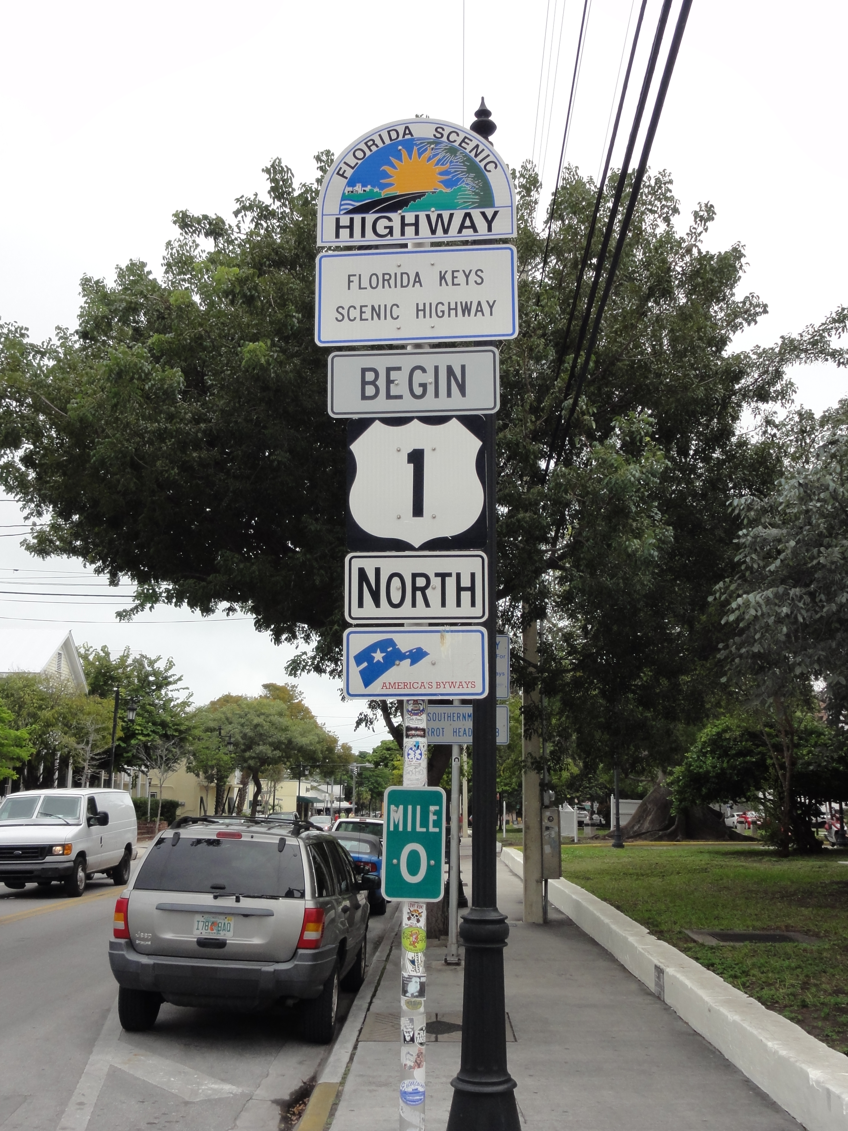 Now you know the origin of those Mile 0 stickers. The other end is at Fort Kent, ME, 2390 miles away (or 2376, depending on if you are using historical or current routings). Florida used to have its own color scheme for US Routes, with US 1 having a white number on an all-red shield. See?